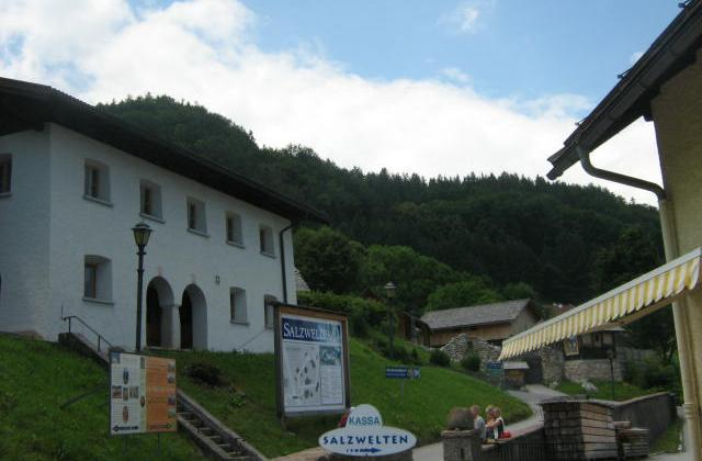 Entrance of salt mines in Dürrnberg